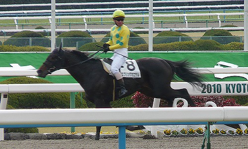 Yuzo-Shirahama